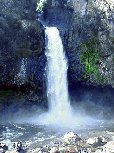 A photo of Cascada de Texolo, or Texolo Waterwall, located in Xico, Veracruz, Mexico. It has been used for several movies including Romancing The Stone. Please acknowledge "Phil Konstantin" as the creator of this photograph.